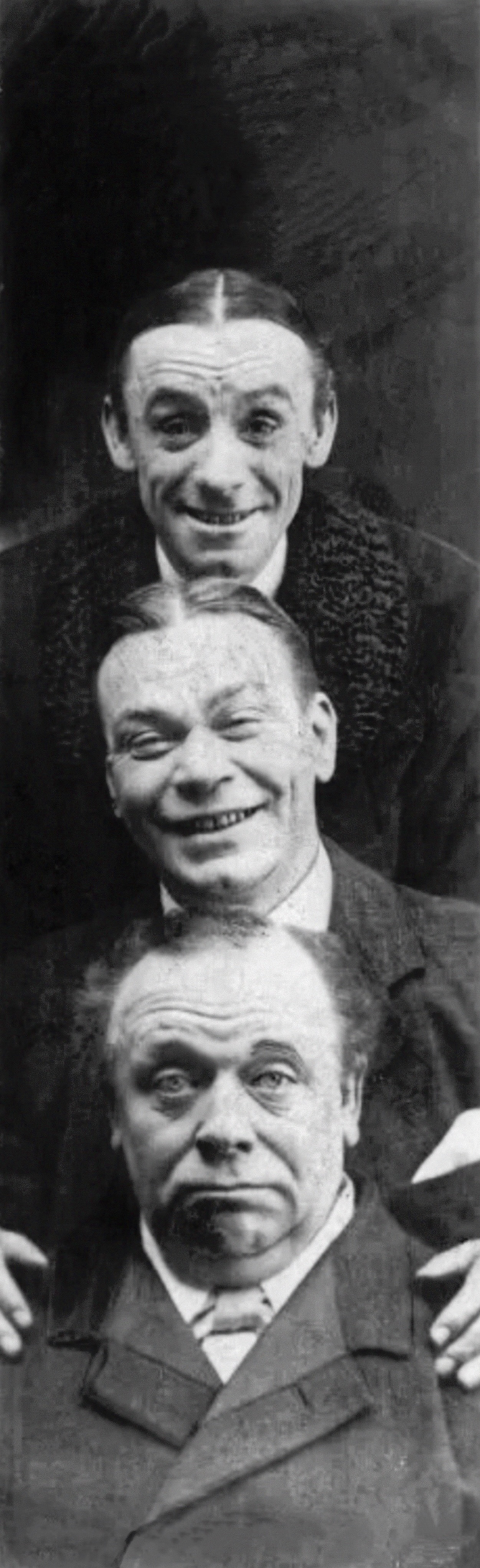 Dan Leno, Johnny Danvers and Herbert Campbell taken in the late 1890s.